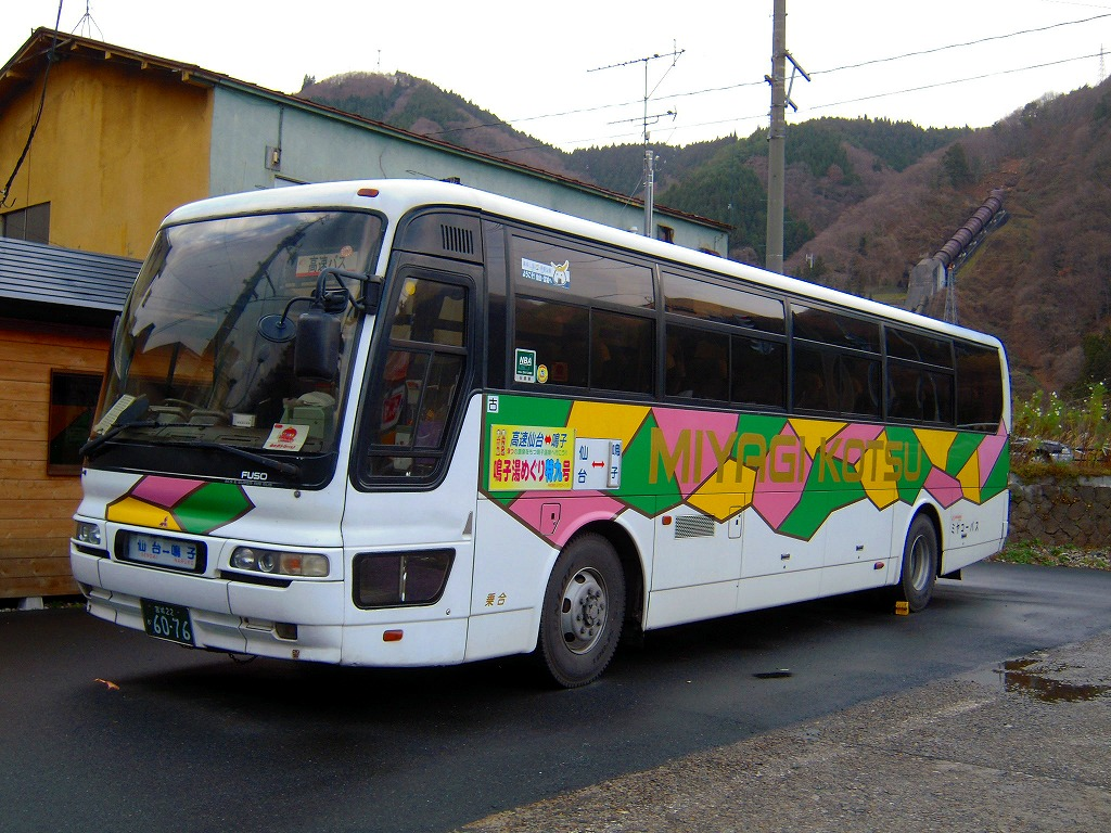 Miyako bus Mitsubishi Fuso Aero Bus(U-MS826P)Highwaybus Sendai-Naruko(Osaki,Miyagi,Japan)